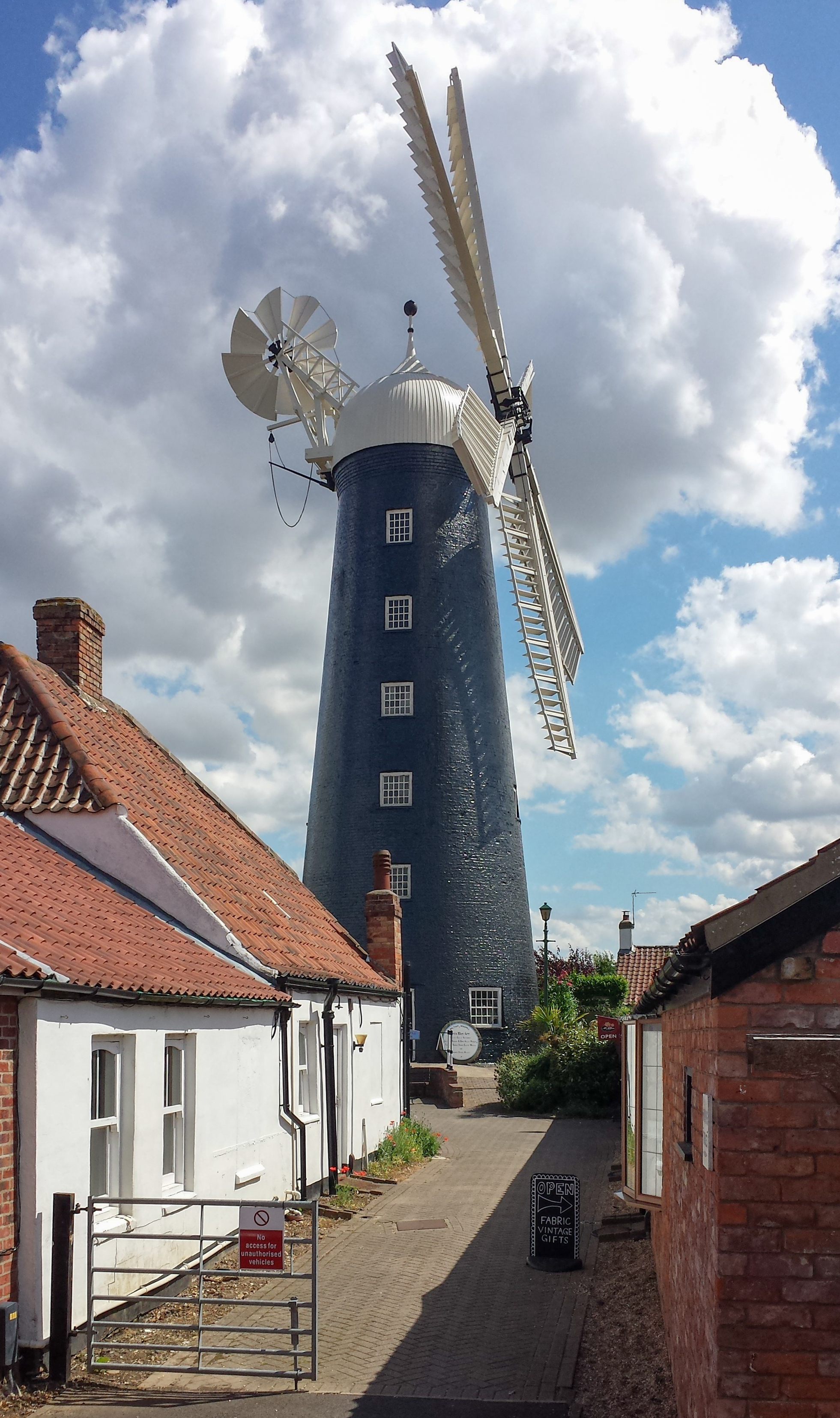 Waltham Windmill, North East Lincolnshire. This 1880 six-sail windmill is a Grade II* Listed Building in England.